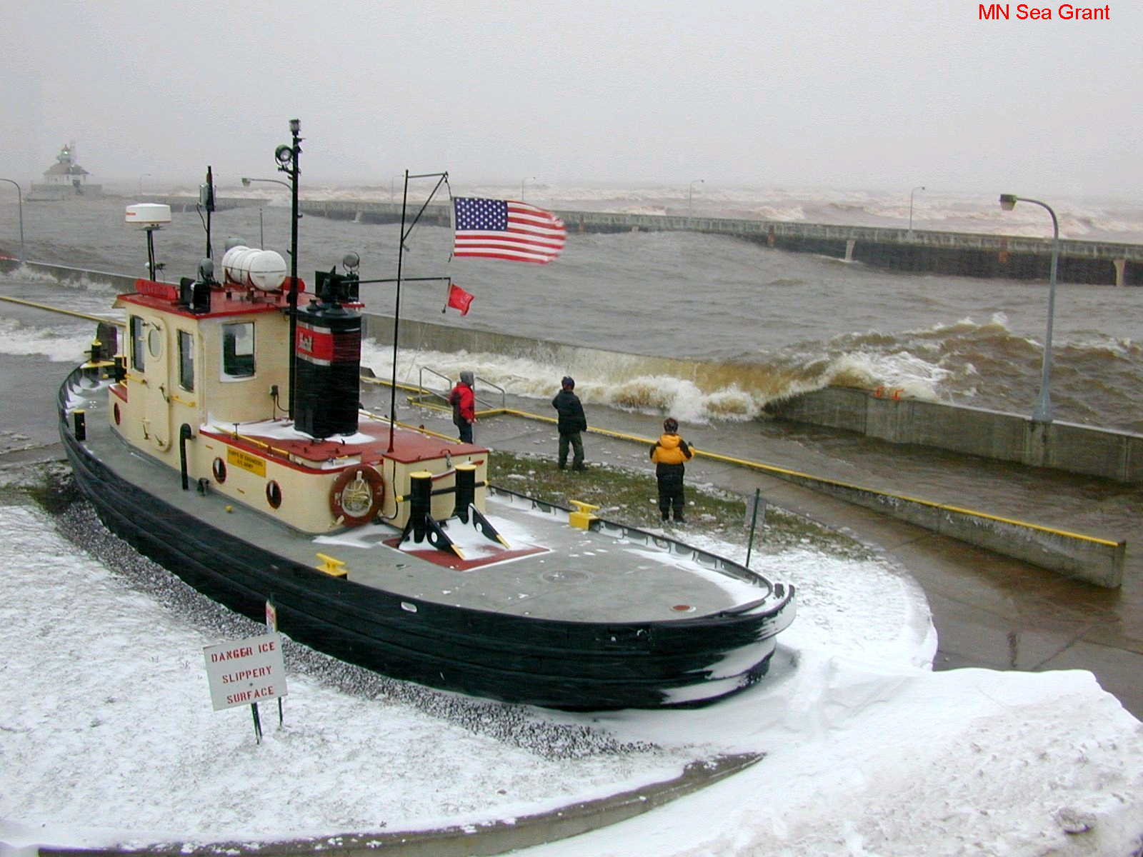 Tugboat Lake Superior moored at a marine museum in Duluth.